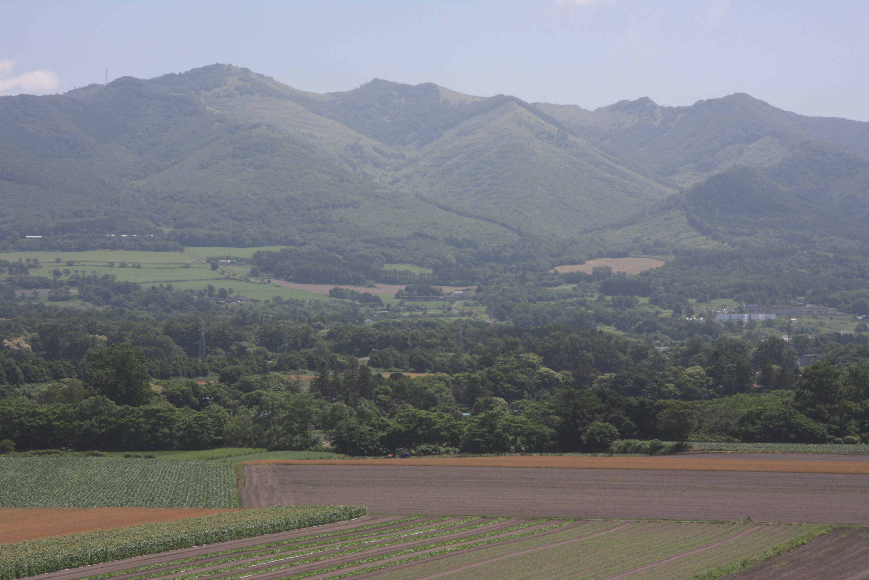 Mount Monbetsu (Monbetsu-dake) seen from the west in Date, Hokkaido, Japan. Also known as Mount Date-Monbersu.